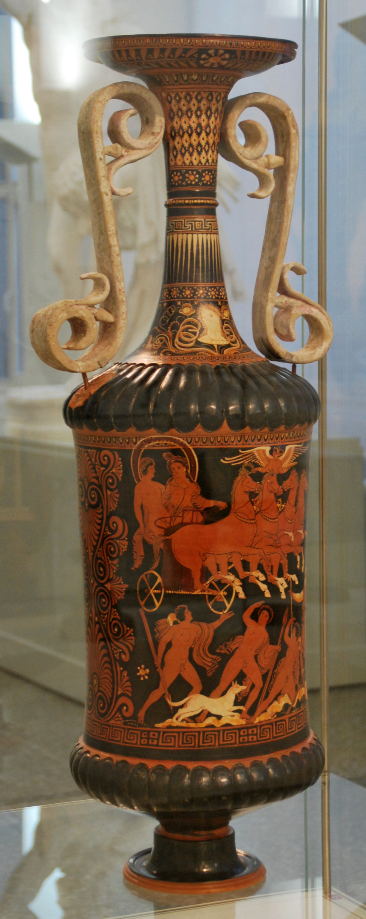 Huge apulian red-figure Loutophoros, Site A by the Underworld painter depicts an the vase body the rape of Cephalos by goddess Eos, on the neck a female head in flower calyx, Site B by the Painter of MNB 1148 depicts on the body a Naiskos scene, on the upper neck a woman wearing a Chiton and a coat, on the lower neck a female head facing to the right; ca. 330 BC; Antikensammlung Kiel, inventory number B 787.